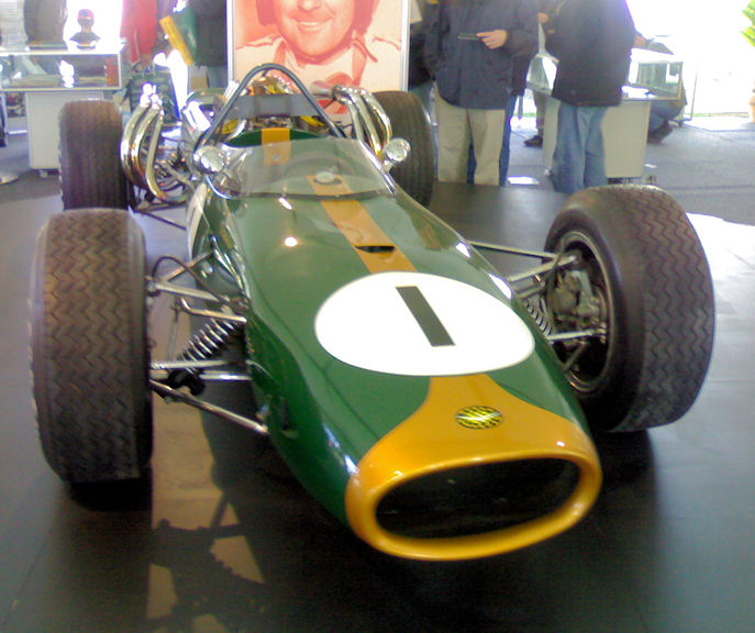 A Brabham BT19 exhibited at the 2006 Australian Grand Prix.